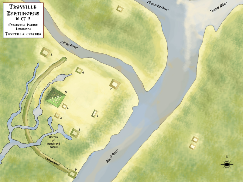 Layout of the Troyville Earthworks (16 CT 7), the type site for the Troyville culture, in Catahoula Parish, Louisiana and inhabited from 100 BCE to 700 CE.[1]